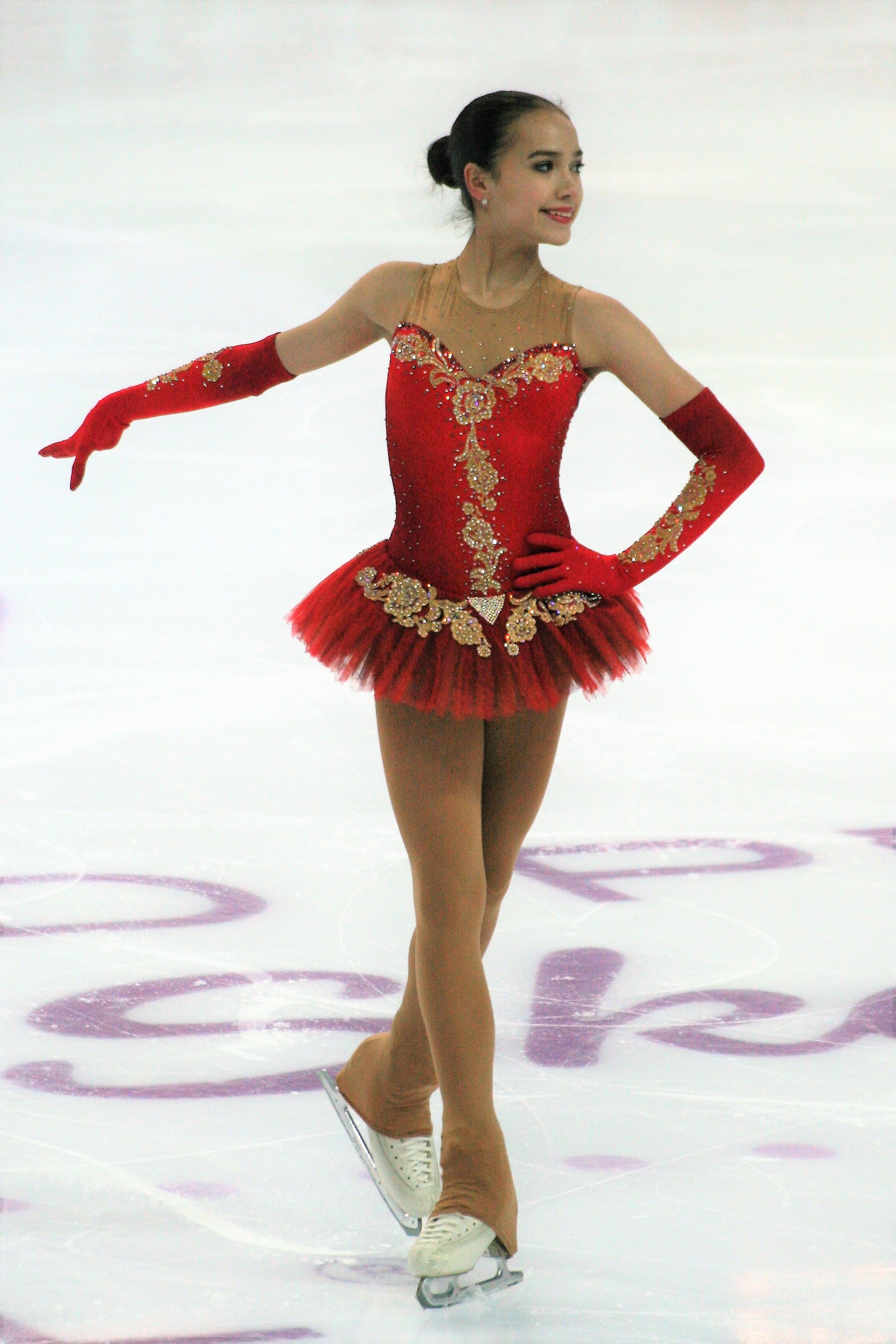 Alina Zagitova at the Junior Grand Prix Final 2016 - Free program